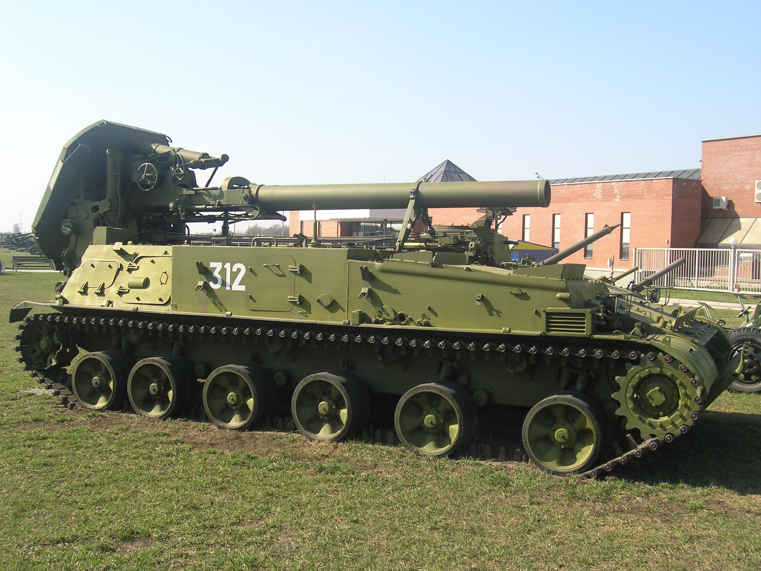 2S4 Tyulpan, technical museum, Togliatti, Russia